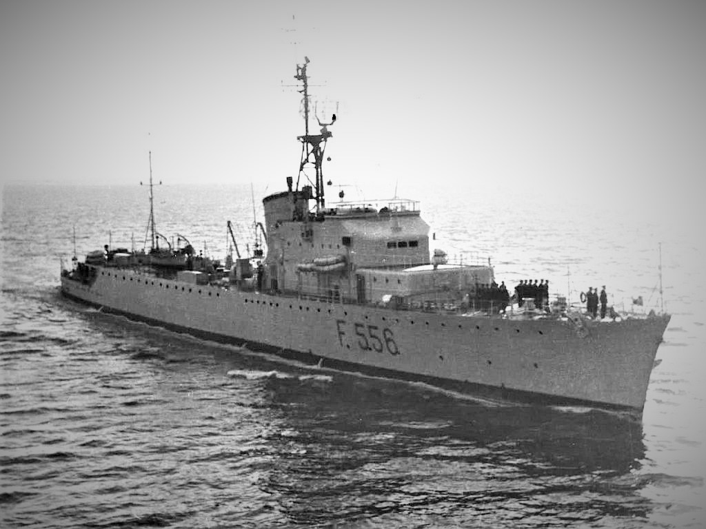 The frigate Grecale (F 556) in navigation as command ship